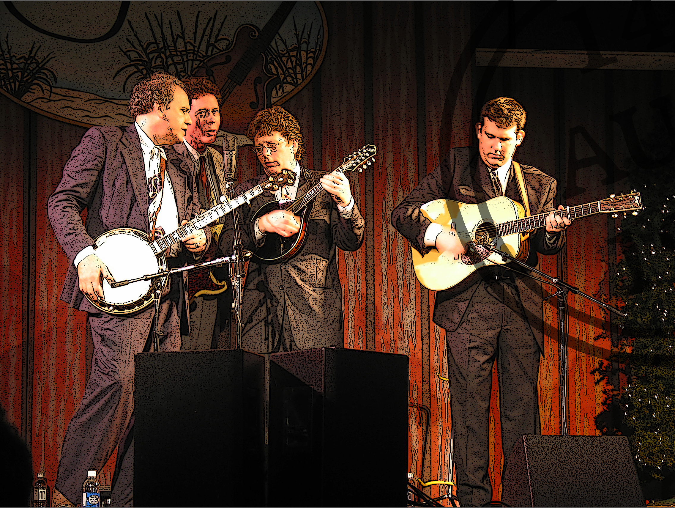 American bluegrass band Hot Rize. Photo and poster by Eric Frommer, flickr user armadilo60.